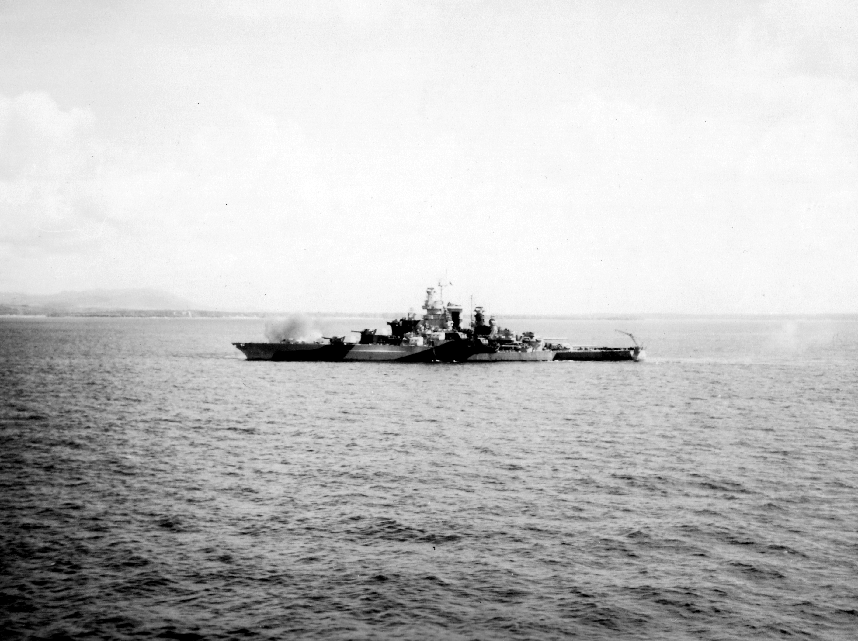 The U.S. Navy battleship USS Tennessee (BB-43) bombarding Guam, 19 July 1944.